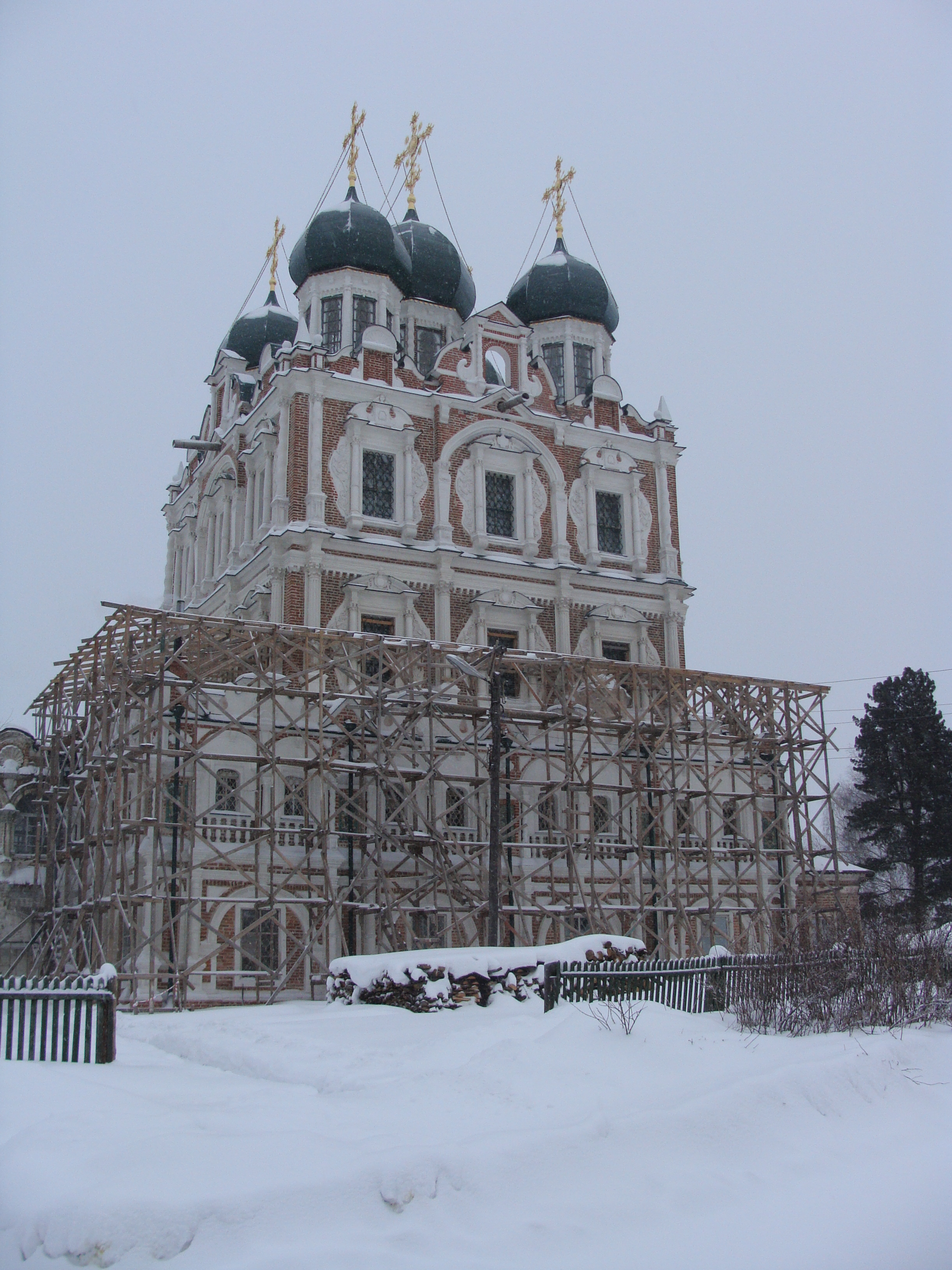 Solvychegodsk